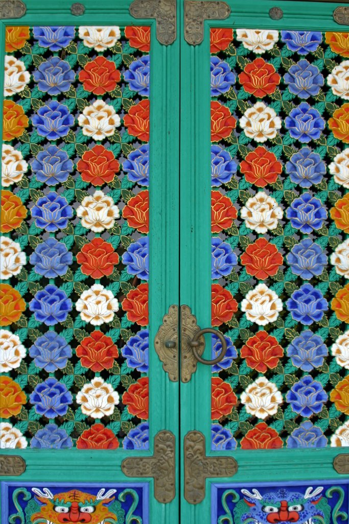 A scenery of Andong City, Gyeongsangbuk-do, South Korea on June 11, 2007.